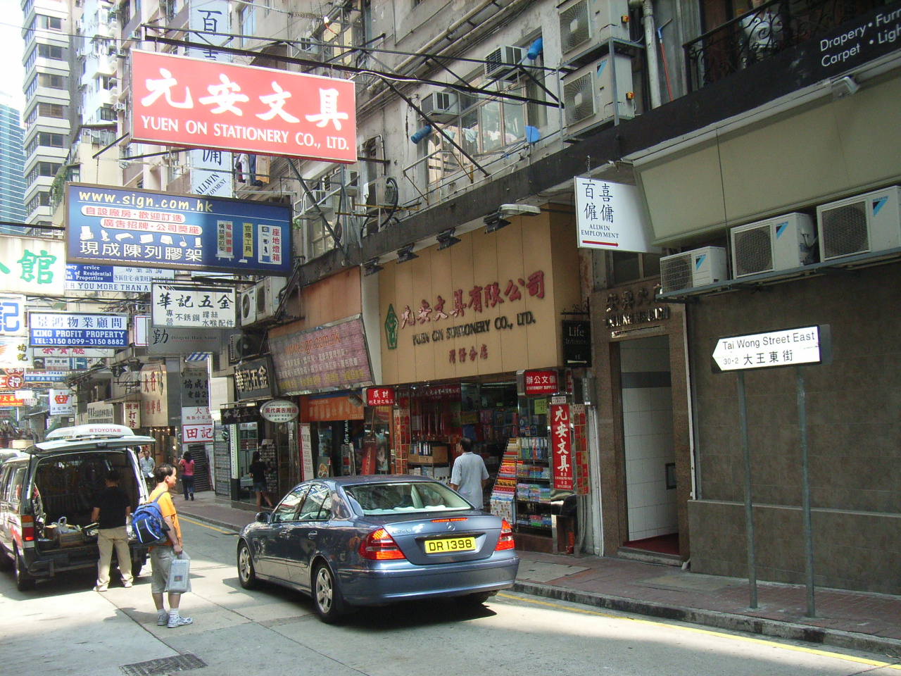 灣仔舊區街道 Wanchai old streets, Hong Kong. (A1 Wong East).